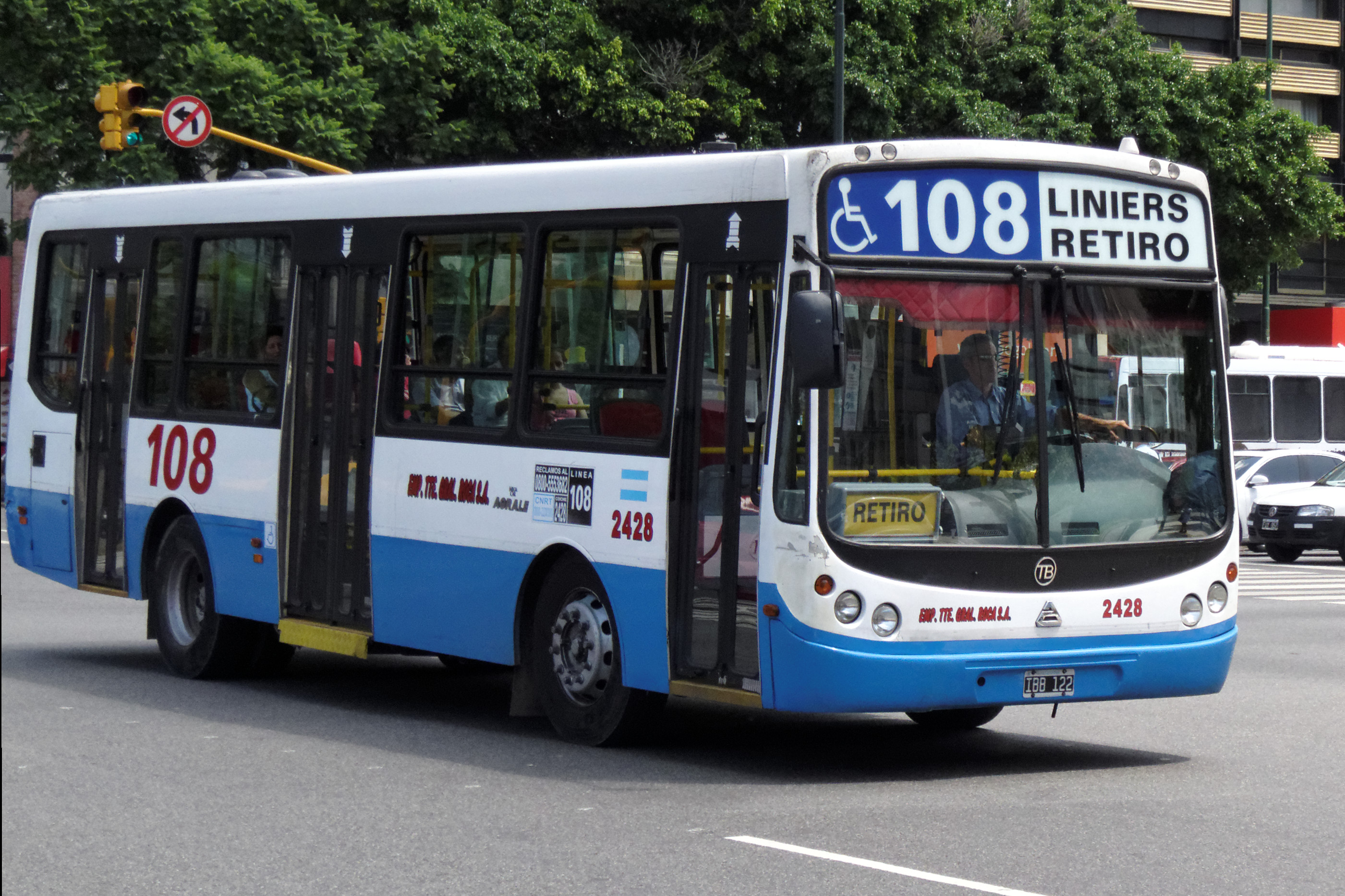 Todo Bus bus (reg. IBB 122, #2428) with Agrale chassis in Buenos Aires, Argentina. Colectivo, line 108, Empresa Teniente General Roca S.A. (D.O.T.A.) operator.